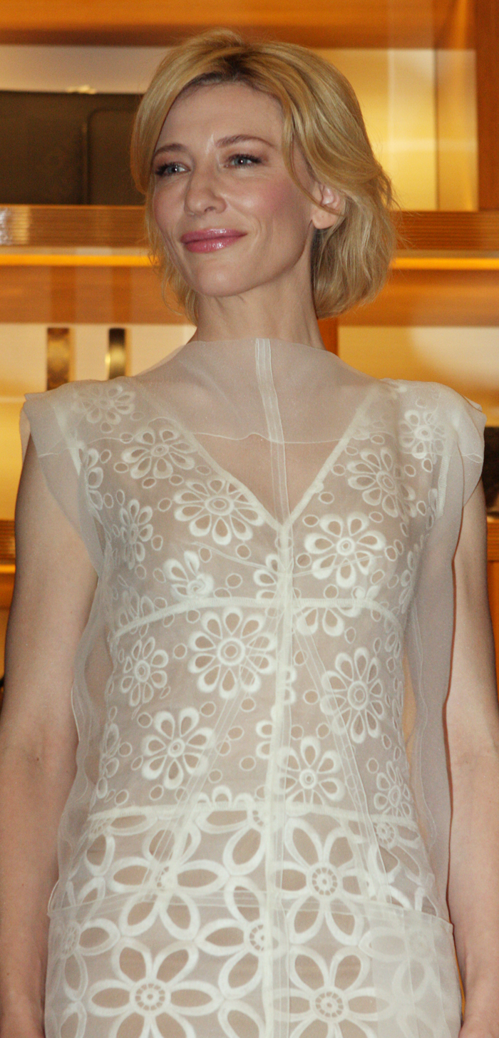 Louis Vuitton Opens New Sydney Store; New Bags, Kangaroo Creative and Top Brass